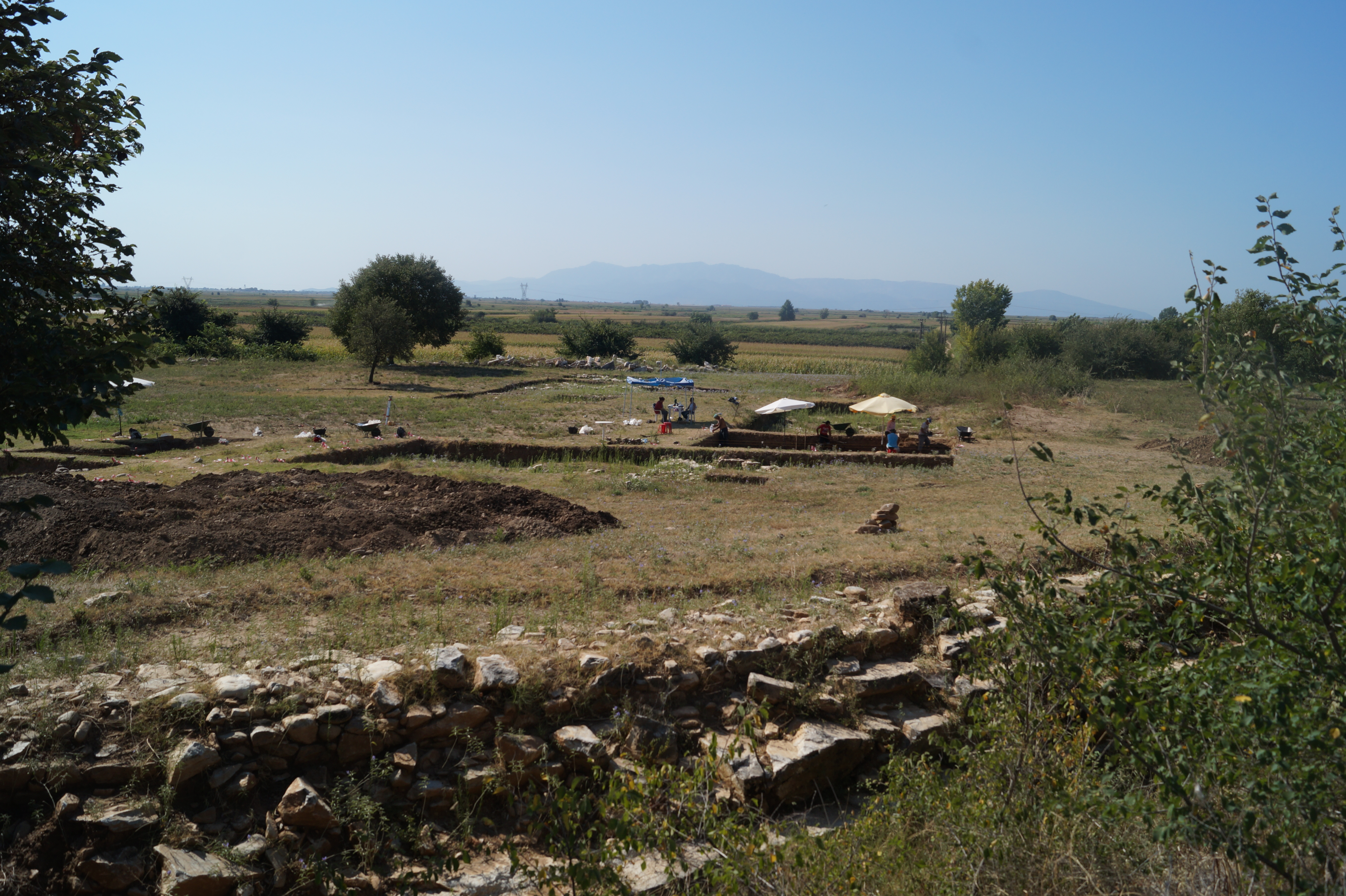 Pontolivado, Makedonia, Greece: Archaeological site of Pistyros.